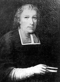 Historical Portrait of John Sleyne